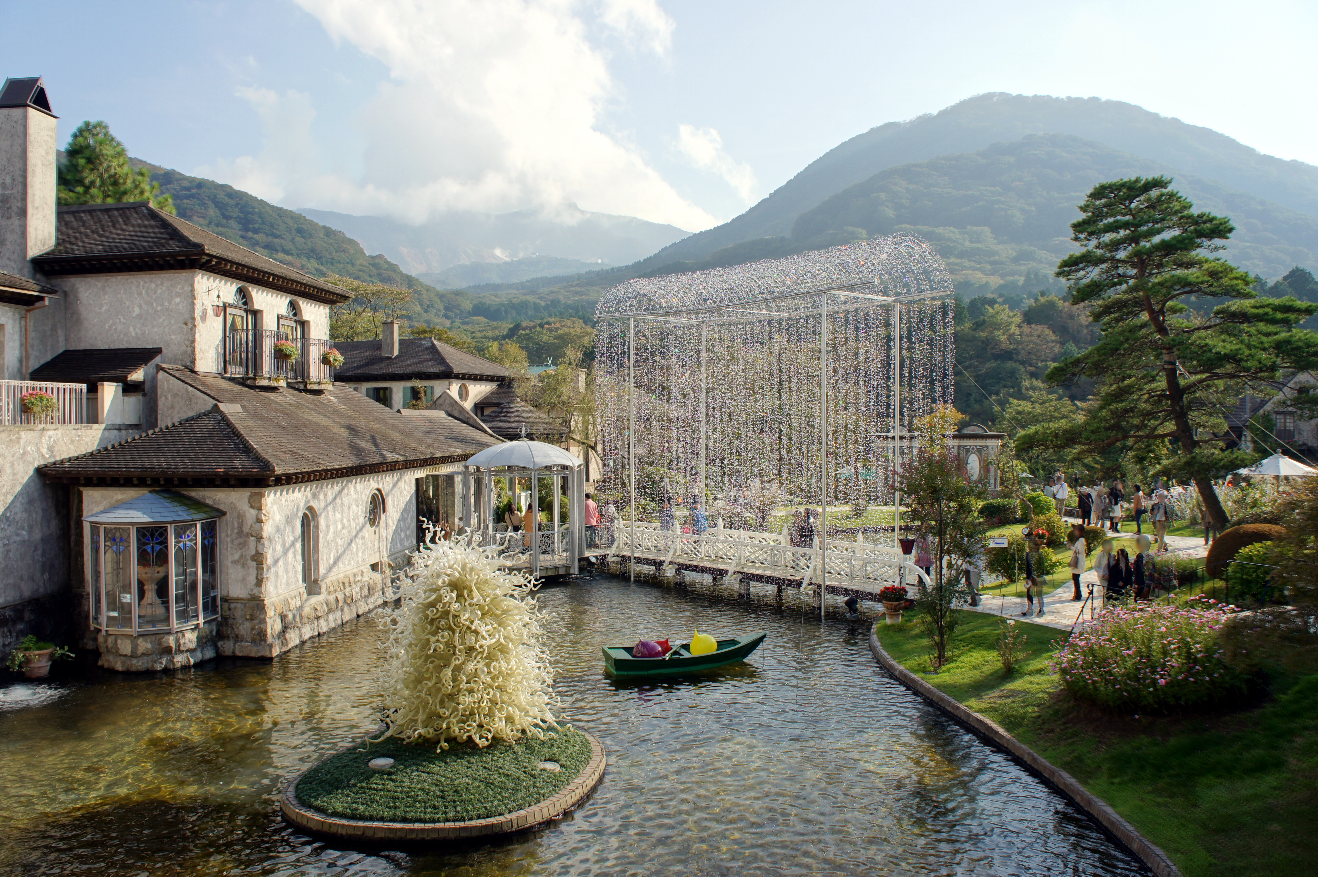 Hakone Venetian Glass Museum (Hakone, Ashigarashimo District, Kanagawa Prefecture, Japan)